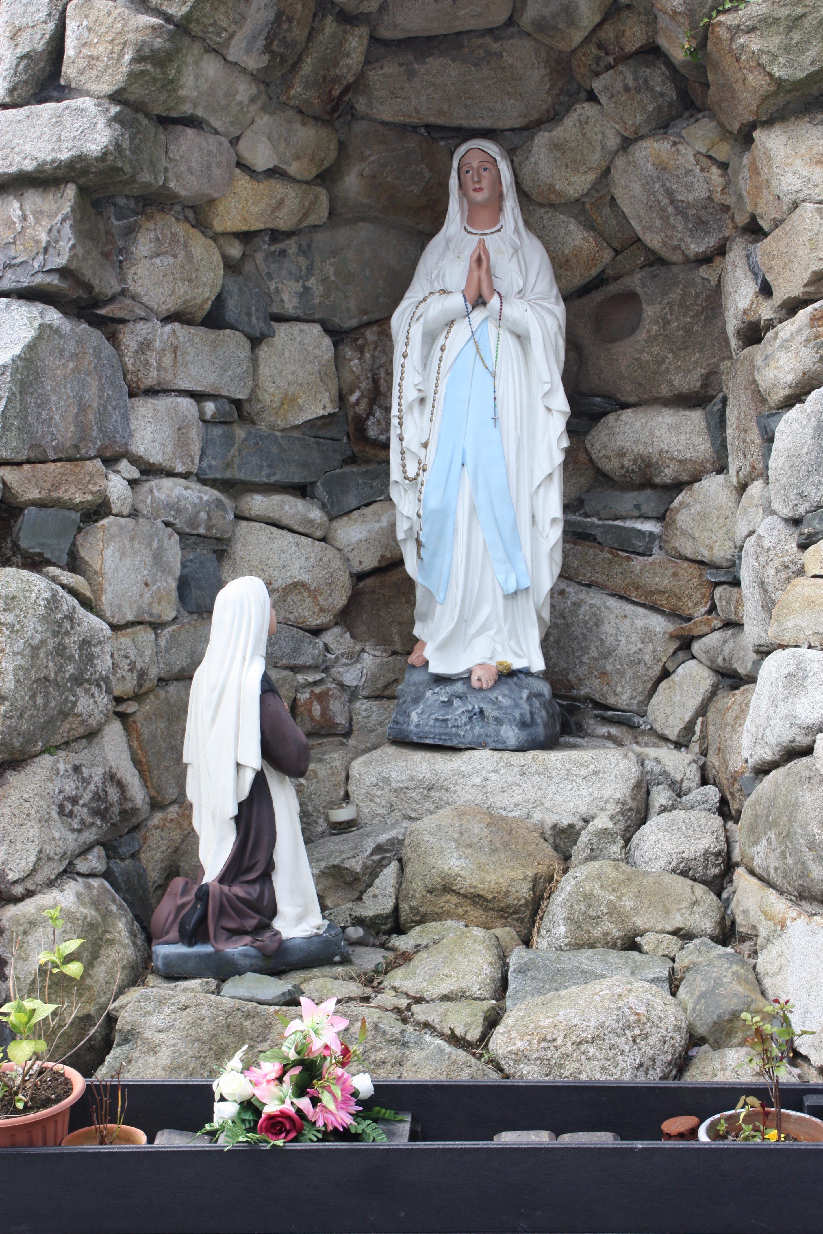 Grotto, St Malachy's Roman Catholic Church, Main Street, Castlewellan, County Down, Northern Ireland, May 2010